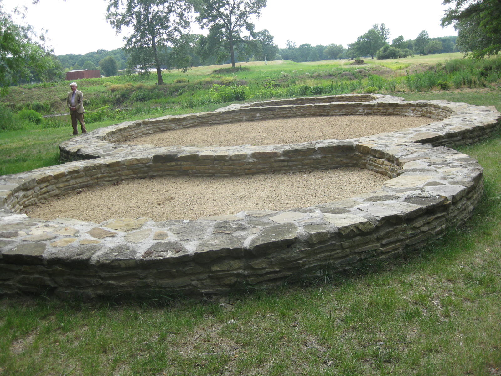 Mikulčice. Double rotunda Church 6